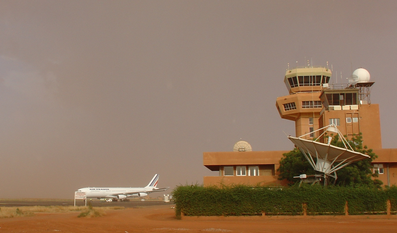 A monsoon storm begins to descend upon the airport in Niamey, the capital of Niger, Africa. The Niamey airport is the site of the second deployment of the ARM Mobile Facility (AMF). Air France airliner on tarmac.